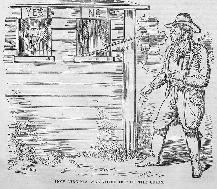 Harper's Weekly cartoon from 15 June 1861, suggesting threats tainted the voting for Virginia's secession from the USA.